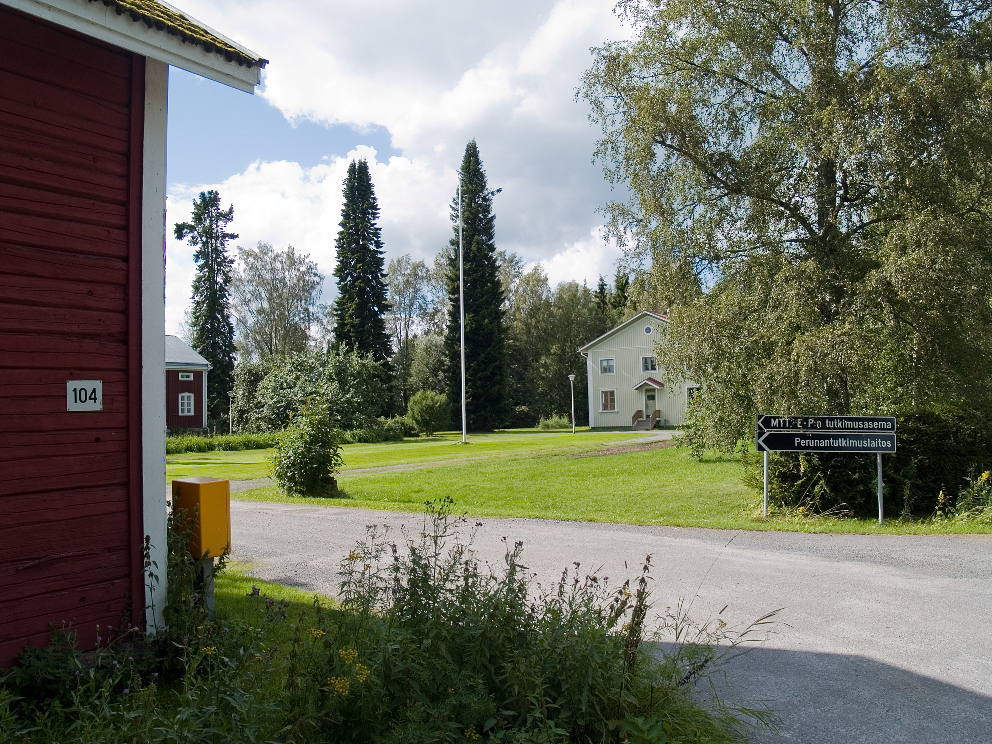 Potato research institute in Ylistaro, Seinäjoki, Finland.